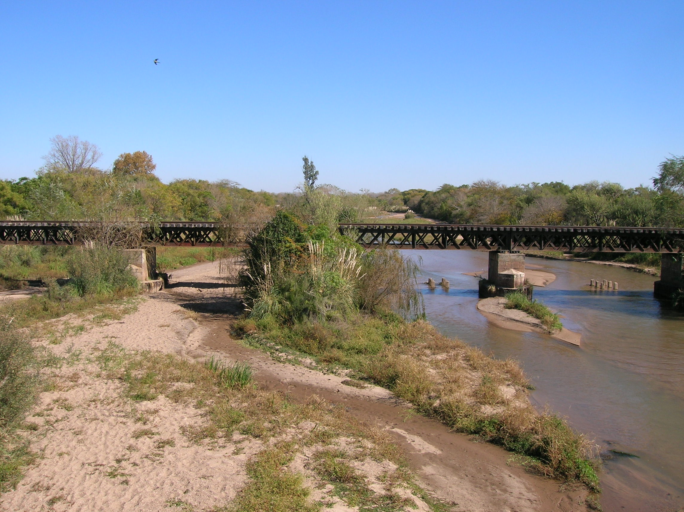 Xanaes The river is crossed by numerous railroad bridges along its course like any river plain.